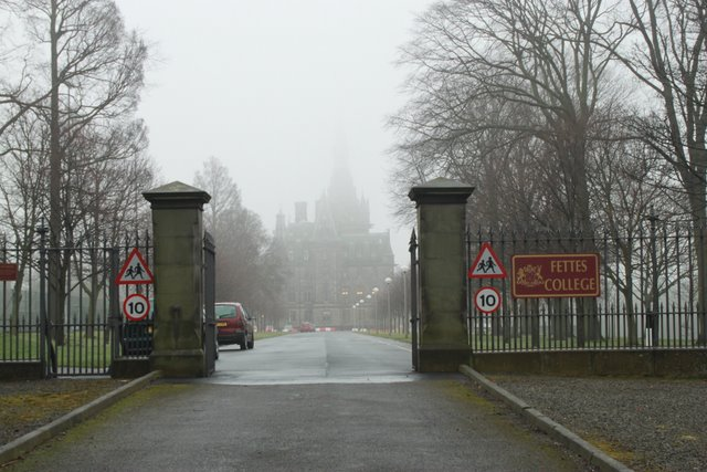 Fettes College western drive gateway. Gateway on the western drive to Fettes College.